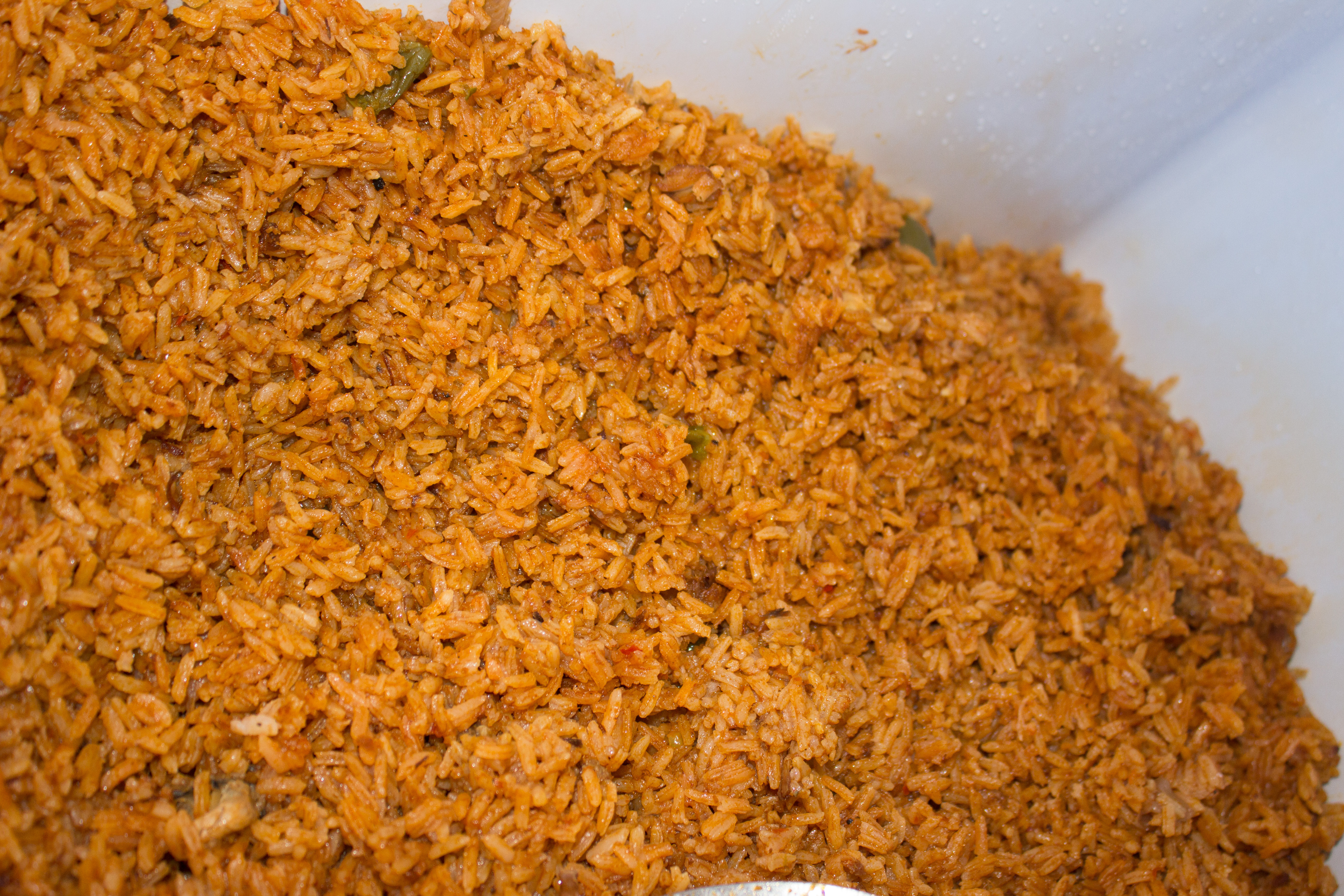 This is an image of food from Ghana